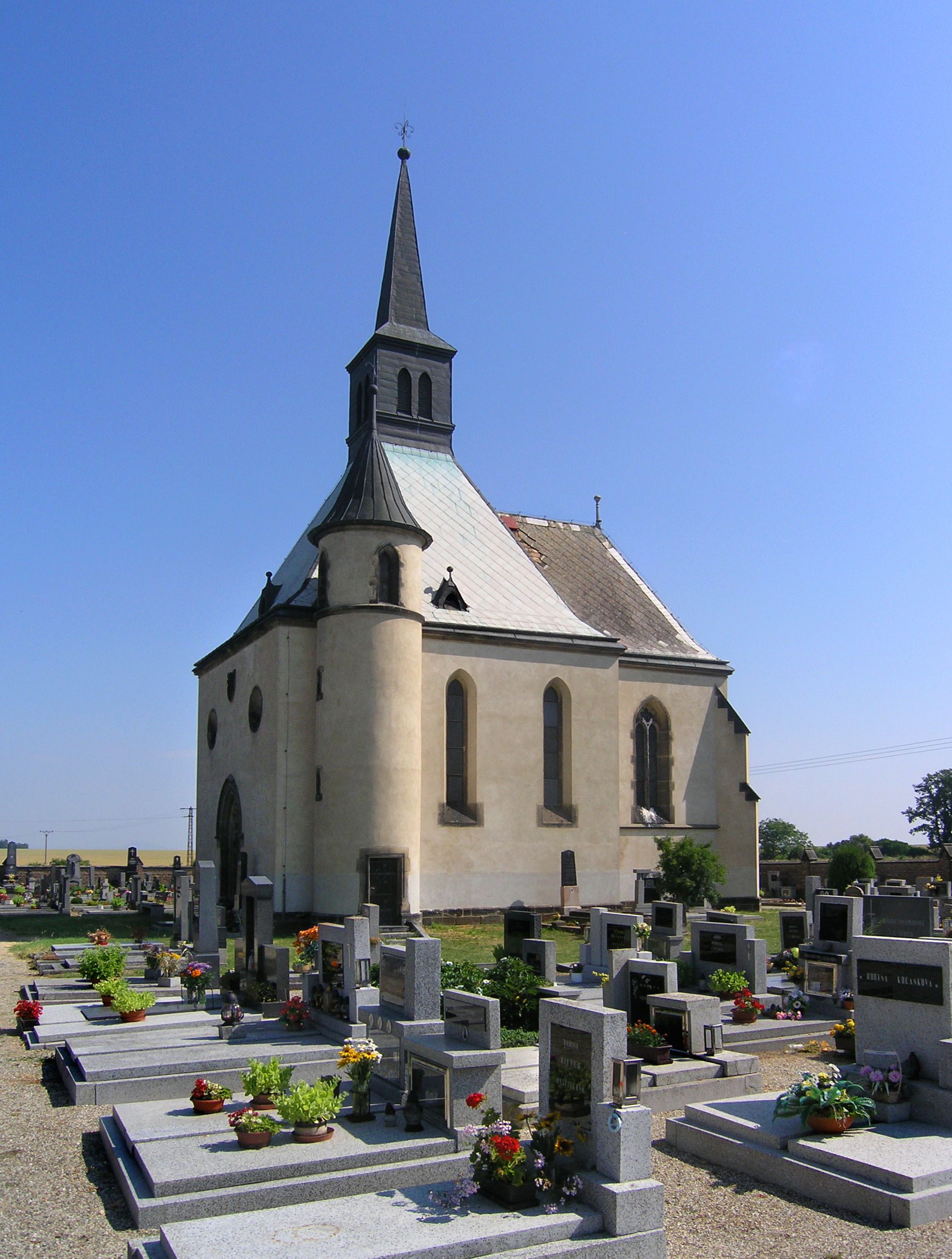 Big chapel in the cemetery by Charvatce, part of Martiněves, Czech Republic